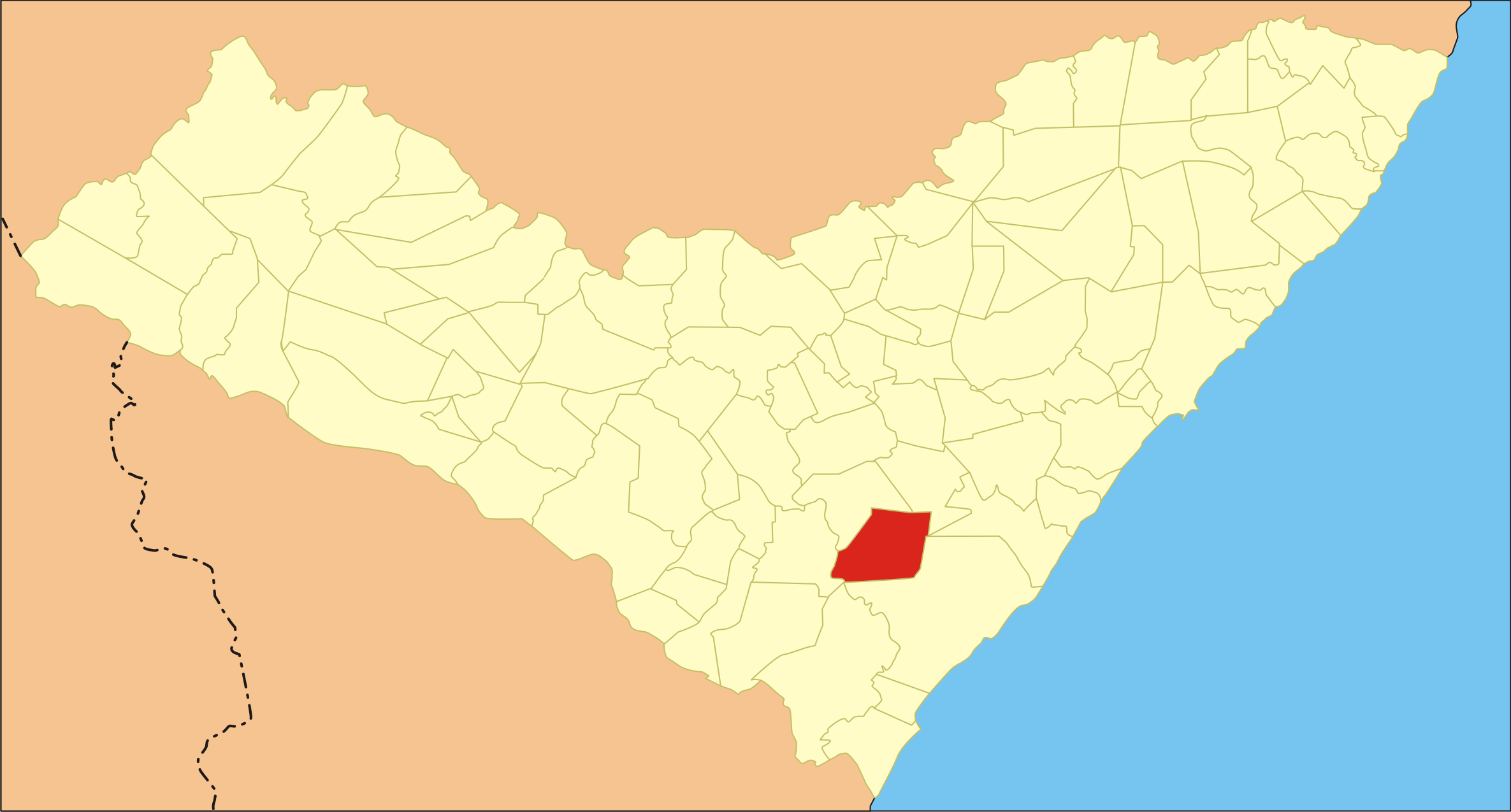 City localization in Alagoas